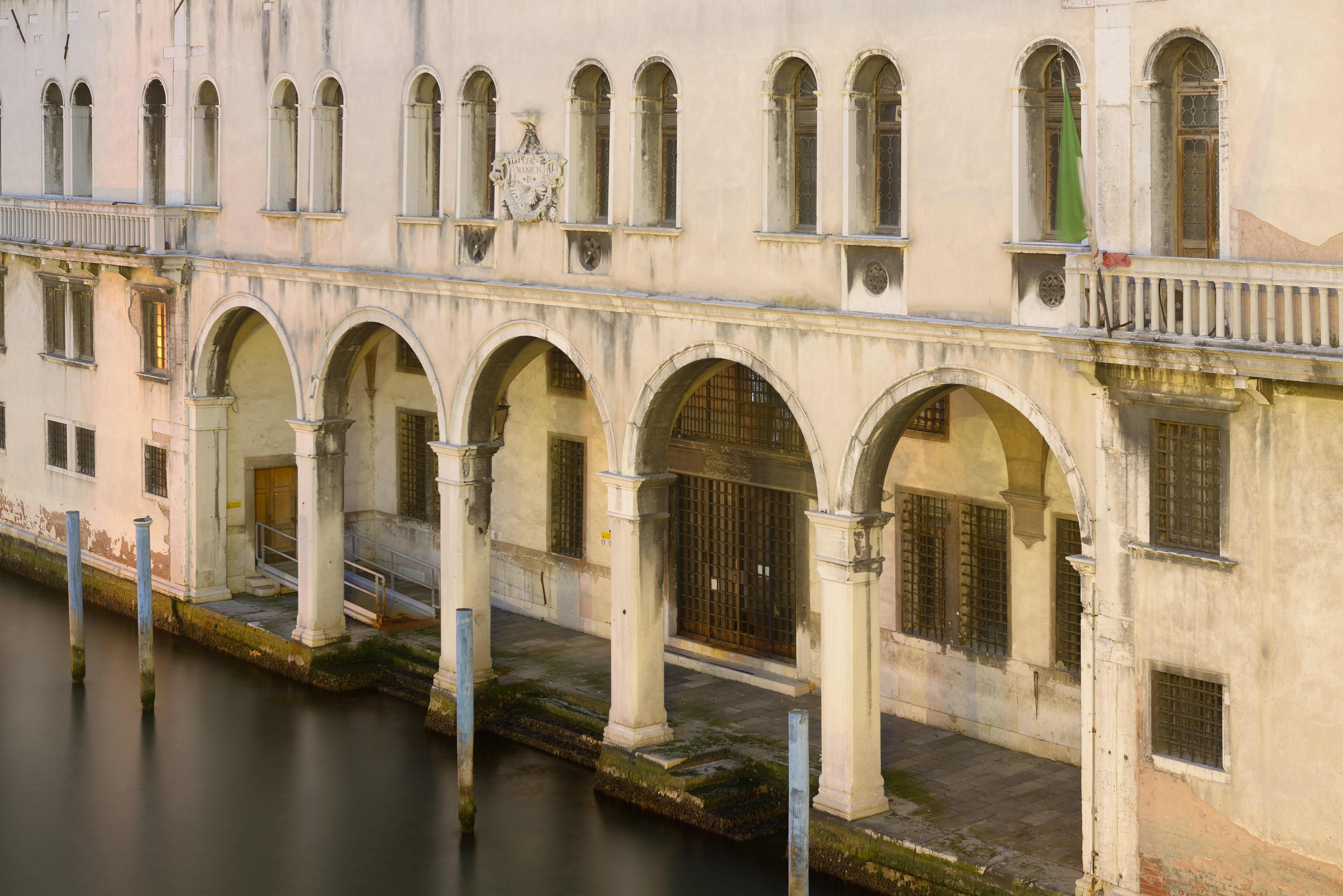 Entrance to the Fondaco dei Tedeschi on the Canal Grande in Venice.